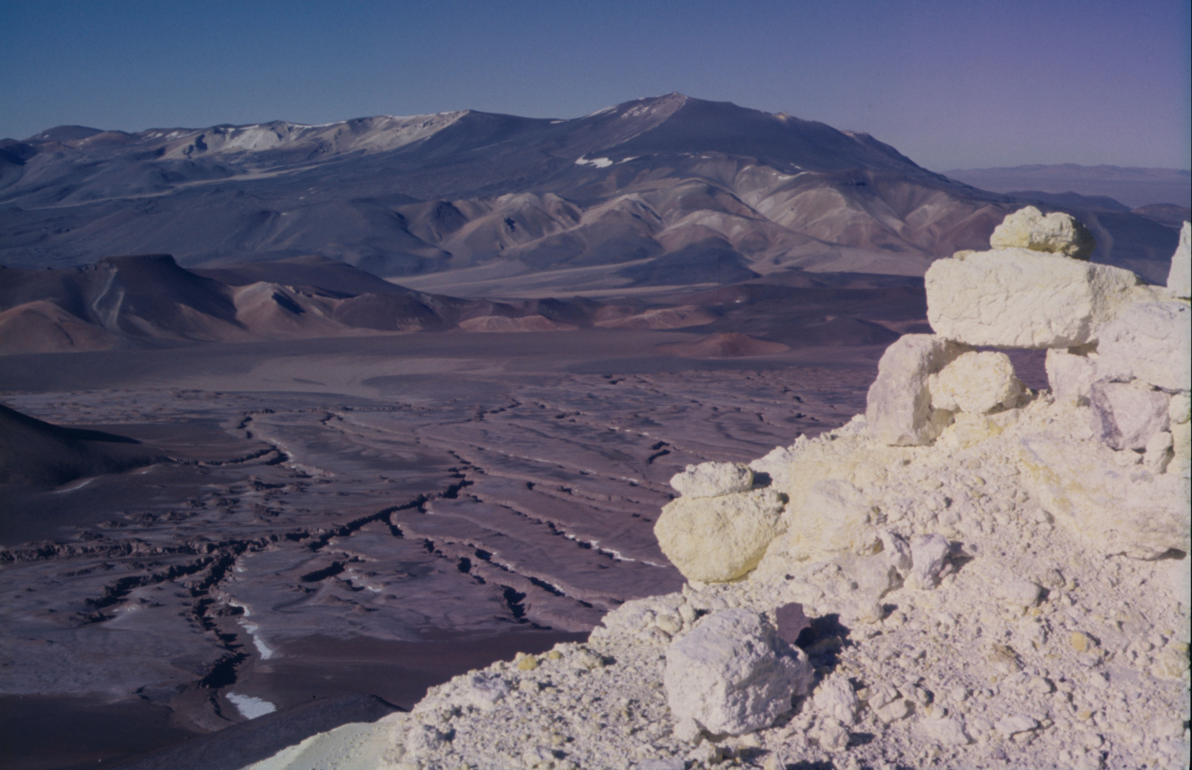 View from top of deposit towards vulcano Lastarria (5670 m ASL)